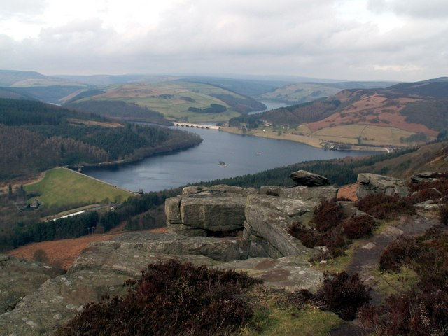 Great Tor on Bamford Edge looking to Ladybower Reservoir Centre skyline is Grinah Stones on Bleaklow, some 13km as the crow flies..